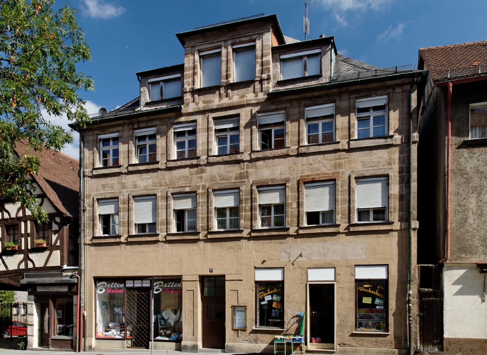 House Königstraße 47 in Fürth, Germany